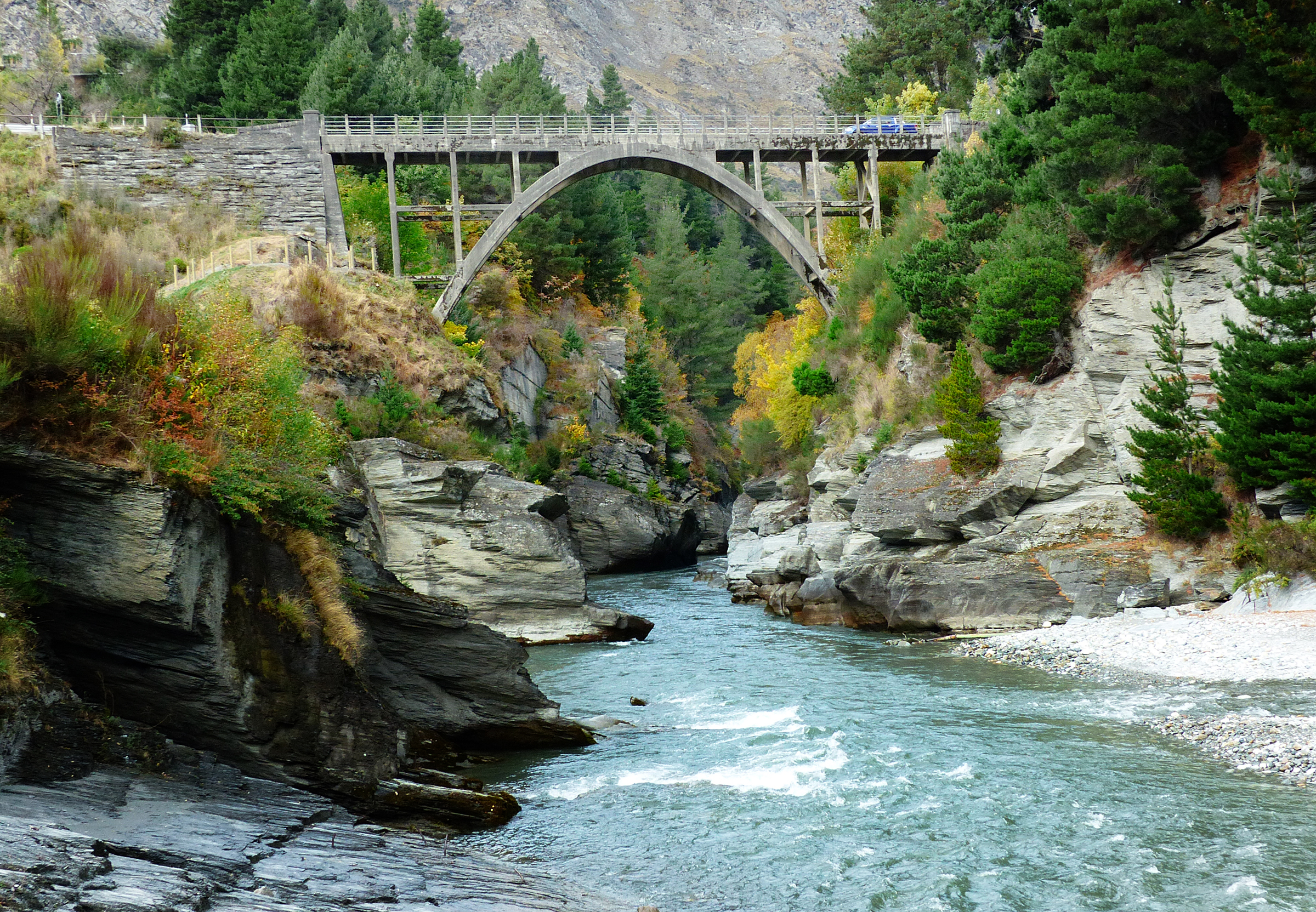 This bridge on the Shotover River, near Queenstown, is an unofficial war memorial. When the concrete parabolic arch bridge was completed, an old miner, Jack Clark, suggested that it be named after Edith Cavell, a British nurse who had been executed in Brussels in 1915. The suggestion was not accepted, but Clark painted the name on the new structure anyway. By the time the paint wore off, the name had stuck and an informal war memorial had been created.